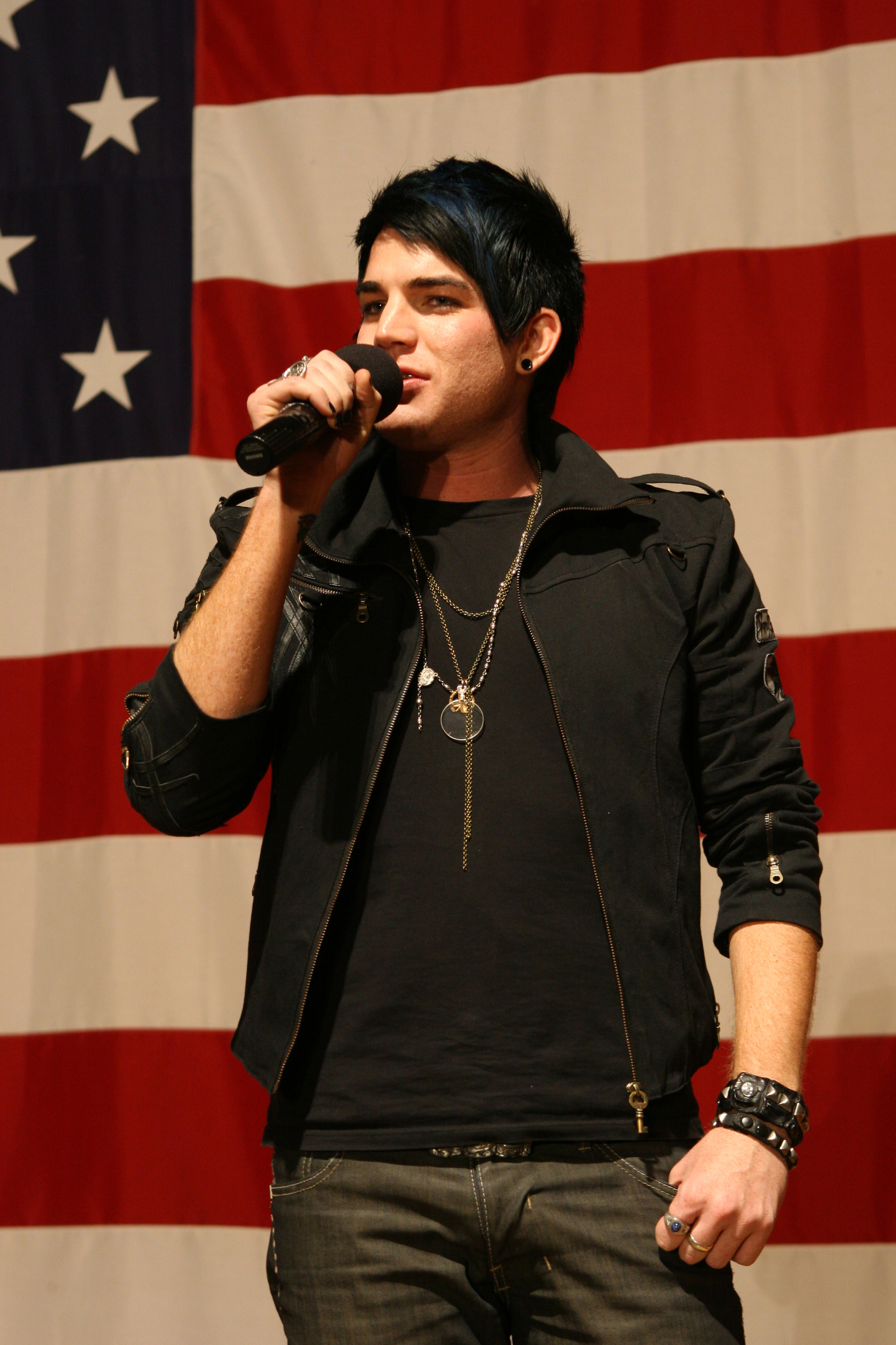 Adam Lambert, one of the three finalists for American Idol and a San Diego native, sings the national anthem, "The Star Spangled Banner" during his visit to at Marine Corps Air Station Miramar.